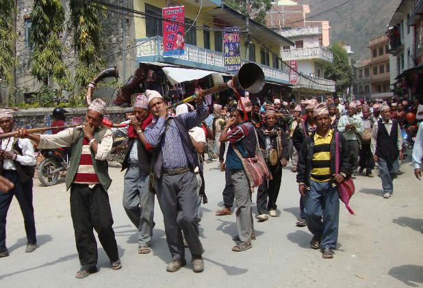 Nepali people with musical instrument.